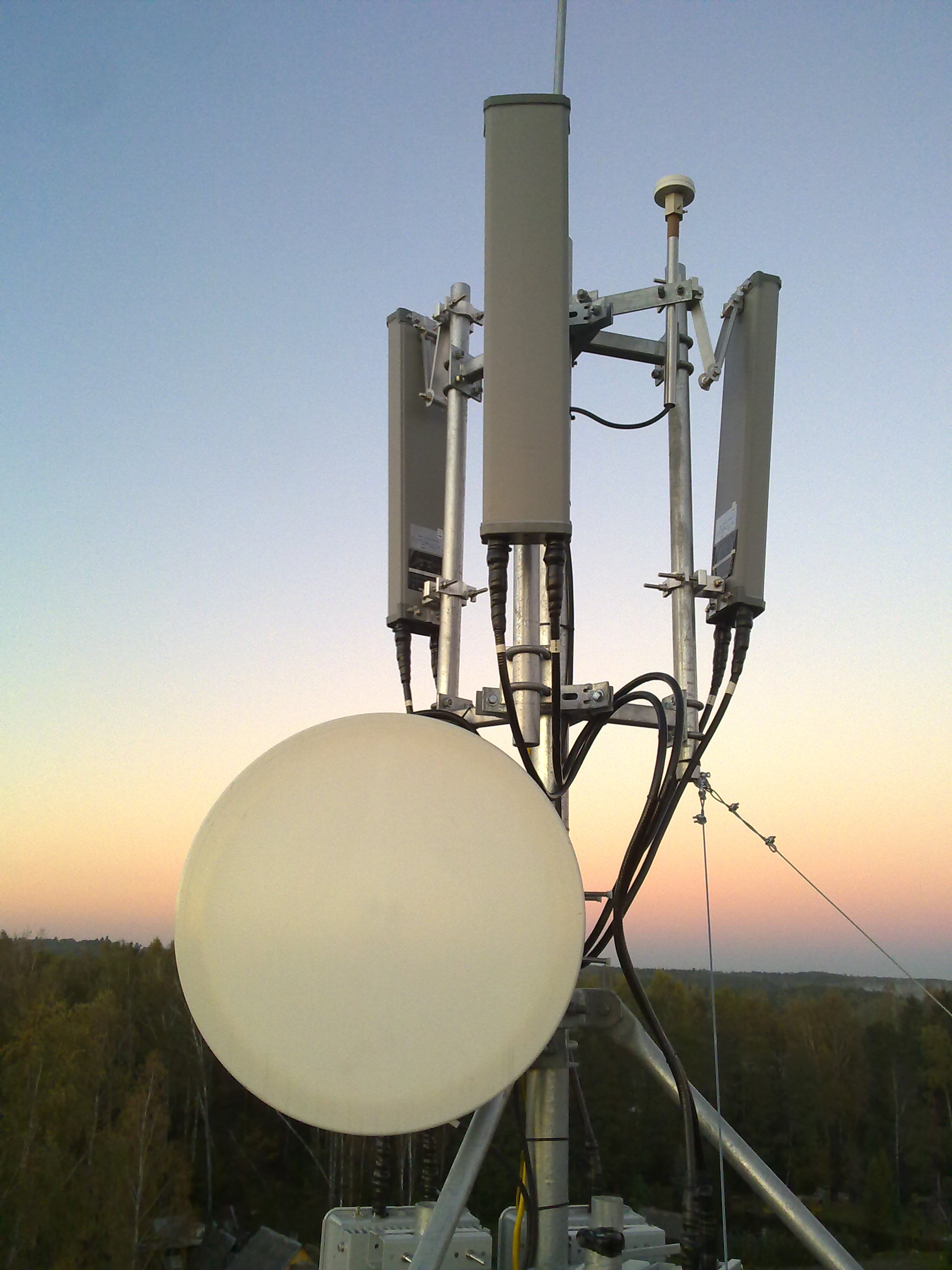 Samsung Wimax base station aerial in Lithuania